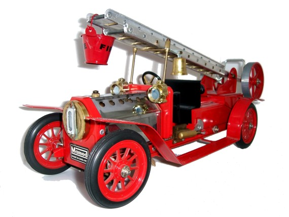 A Mamod FE1 Fire engine. Permission granted by to upload this image.